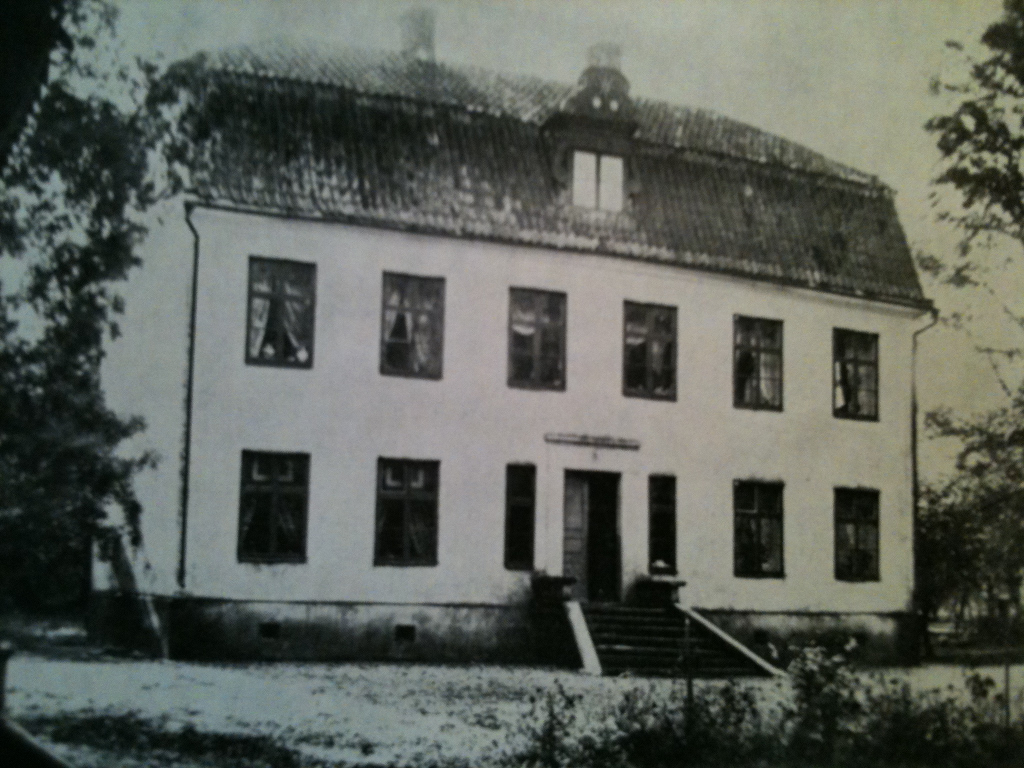 Länna mansion near visby